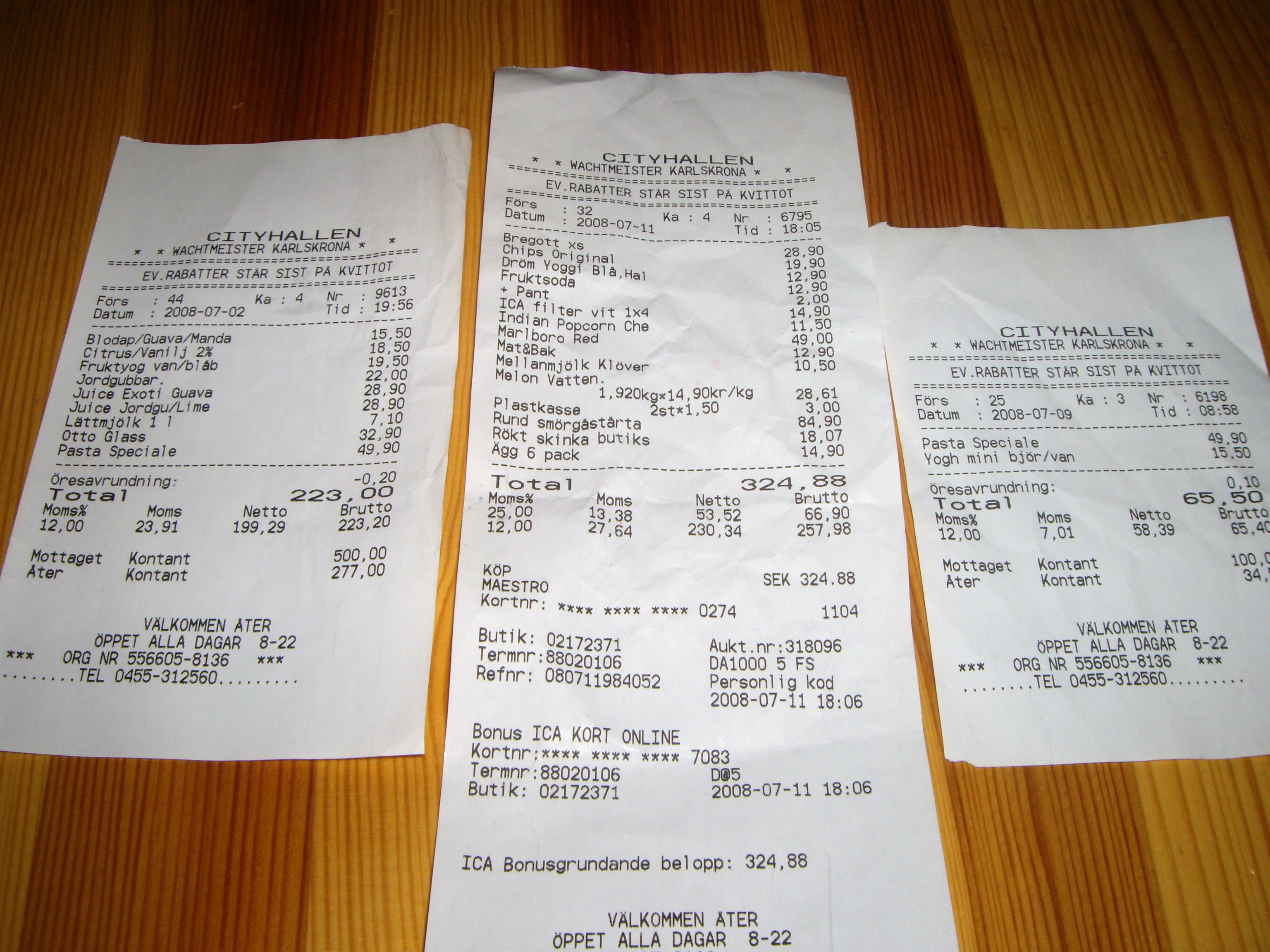 Cash rounding receipts from ICA, Karlskrona, Sweden